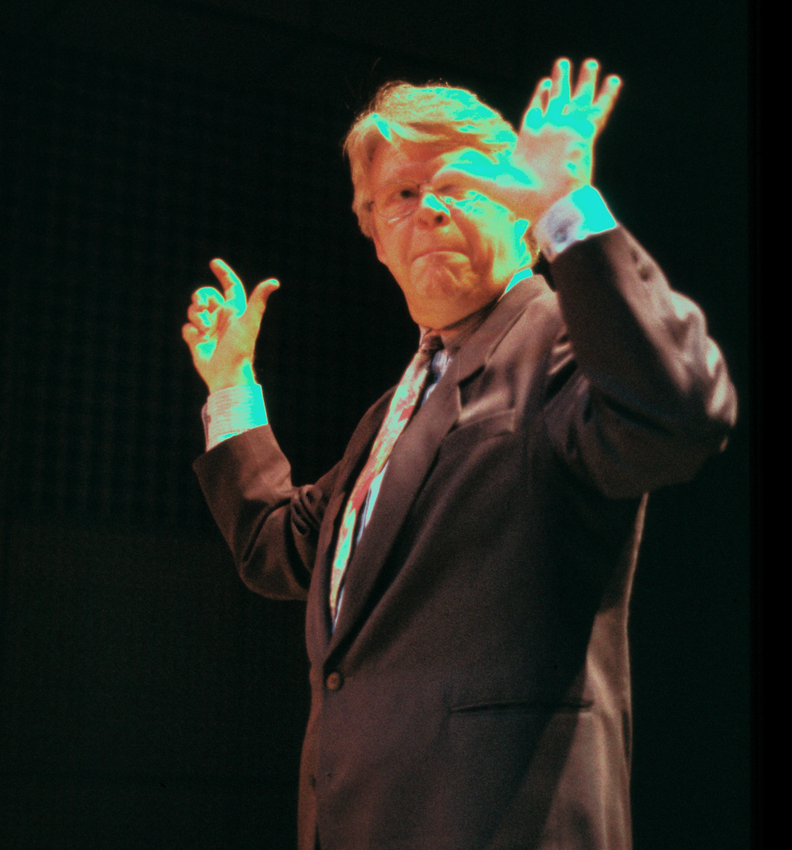 Markku Johansson conducts UMO Jazz Orchestra in Kanneltalo, Helsinki, 1993.